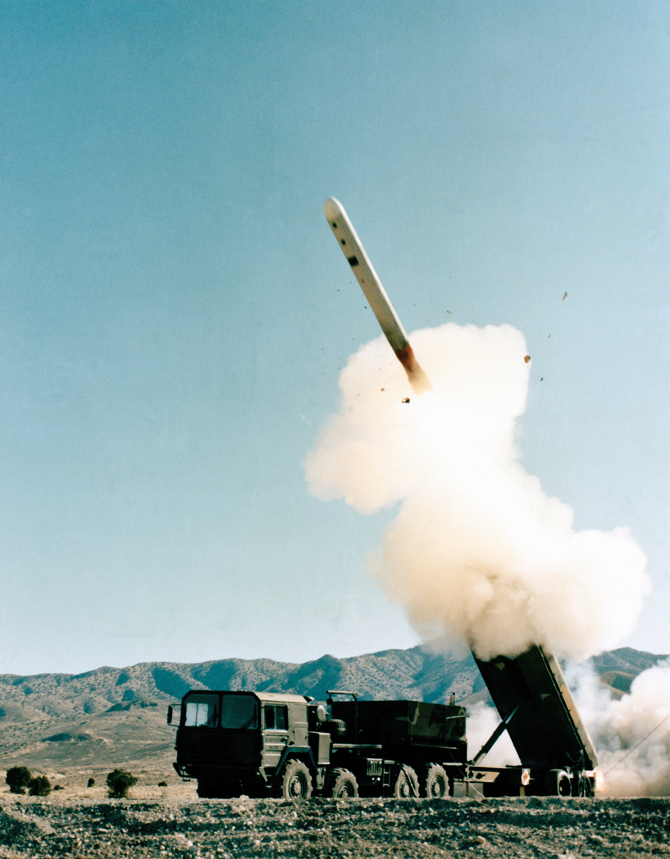 A launching BGM-109G Gryphon missile